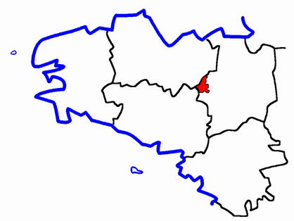 Description: Map for localisazion of cantons of Bretagne region in France Source: made by Hervé Tigier from another large map (published in 1990)